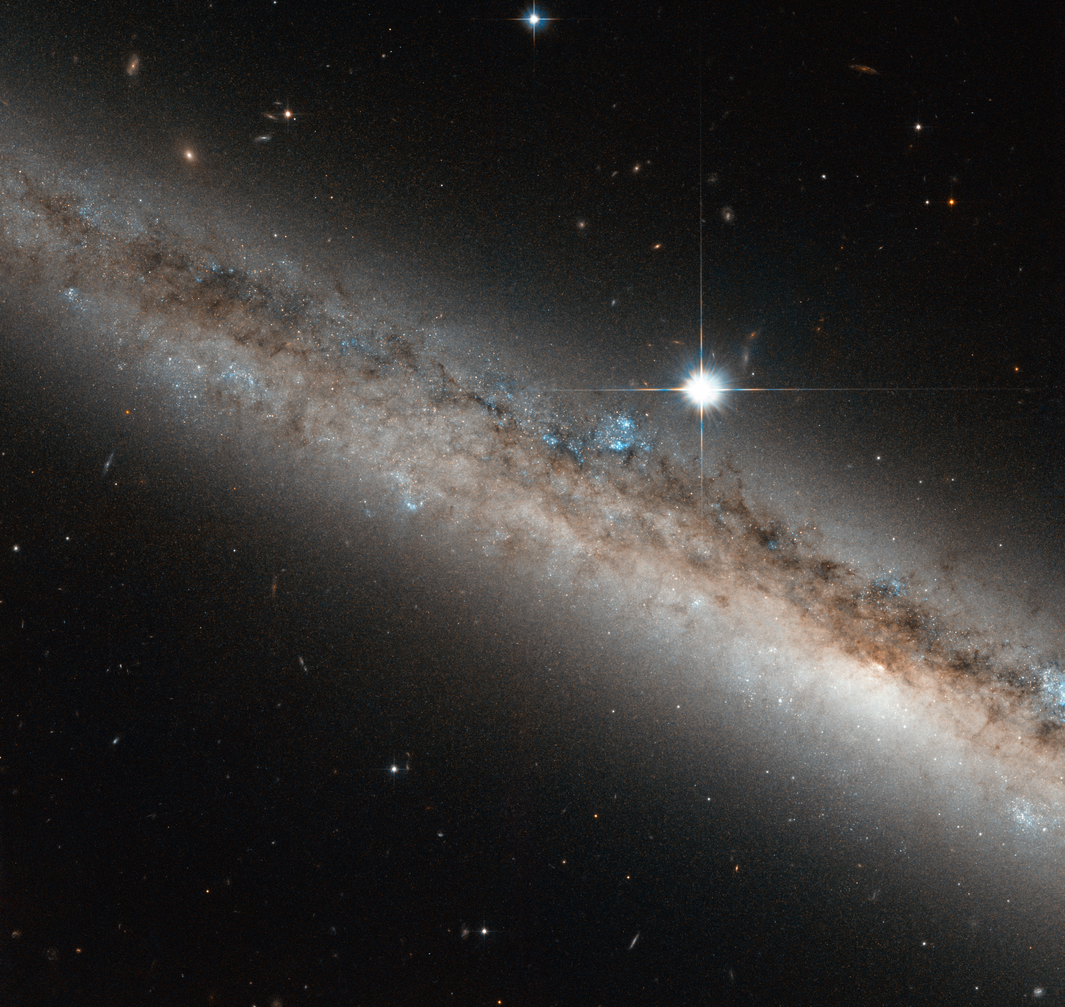 A spiral galaxy crowned by a star A spiral galaxy crowned by a star Click to Enlarge Another treasure unearthed from the Hubble archives, this beautiful image shows a spiral galaxy named NGC 4517. Slightly bigger than our Milky Way, it is seen edge-on, crowned by a very bright star. The star is actually much closer to us than the galaxy, explaining why it appears to be so big and bright in the picture. NGC 4517 is located approximately 40 million light-years away in the constellation of Virgo (The Virgin). It has a bright centre, but this is not visible in this Hubble image. Its orientation has led to it being included in many studies of globular clusters, clumps of stars that orbit the centres of galaxies like satellites. The galaxy was discovered in 1784 by William Herschel, who described this region as having “a pretty bright star situated exactly north of the centre of an extended milky ray”. Of course the “milky ray” seen by Herschel is actually this spiral galaxy, but with his 17th century observing gear he could only tell that there a fuzzy, blurry structure below the much brighter star. This image is composed from visible and infrared light gathered by NASA/ESA Hubble Space Telescope. A version of this image was entered into the Hubble’s Hidden treasures image processing competition by contestant Gilles Chapdelaine. Credit: ESA/Hubble & NASA Acknowledgement: Gilles Chapdelaine About the Object Name: ngc 4517 Type: • Local Universe : Galaxy : Type : Spiral • X - Galaxies Images/Videos Distance: 40 million light years Colours & filters Band Wavelength Telescope Infrared I 814 nm Hubble Space Telescope ACS Optical B 606 nm Hubble Space Telescope ACS .